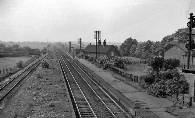 Branston Station (remains) View SW, towards Birmingham; ex-Midland Derby - Birmingham - Bristol Main line. This station had been closed back on 22/9/30, but the line remains a trunk route. The line on the left was the Down Slow, coming out of Branston Sidings.